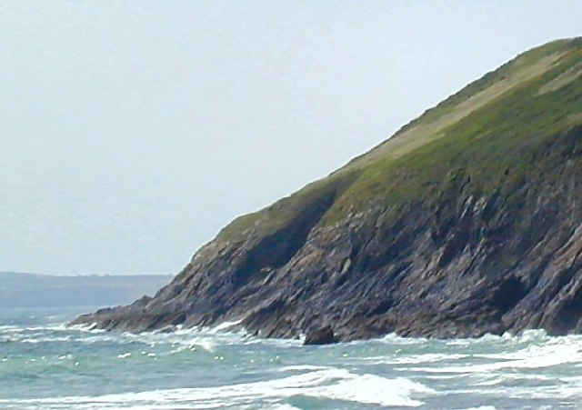 Zone Point, looking south-west from Porthbeor Beach, Cornwall